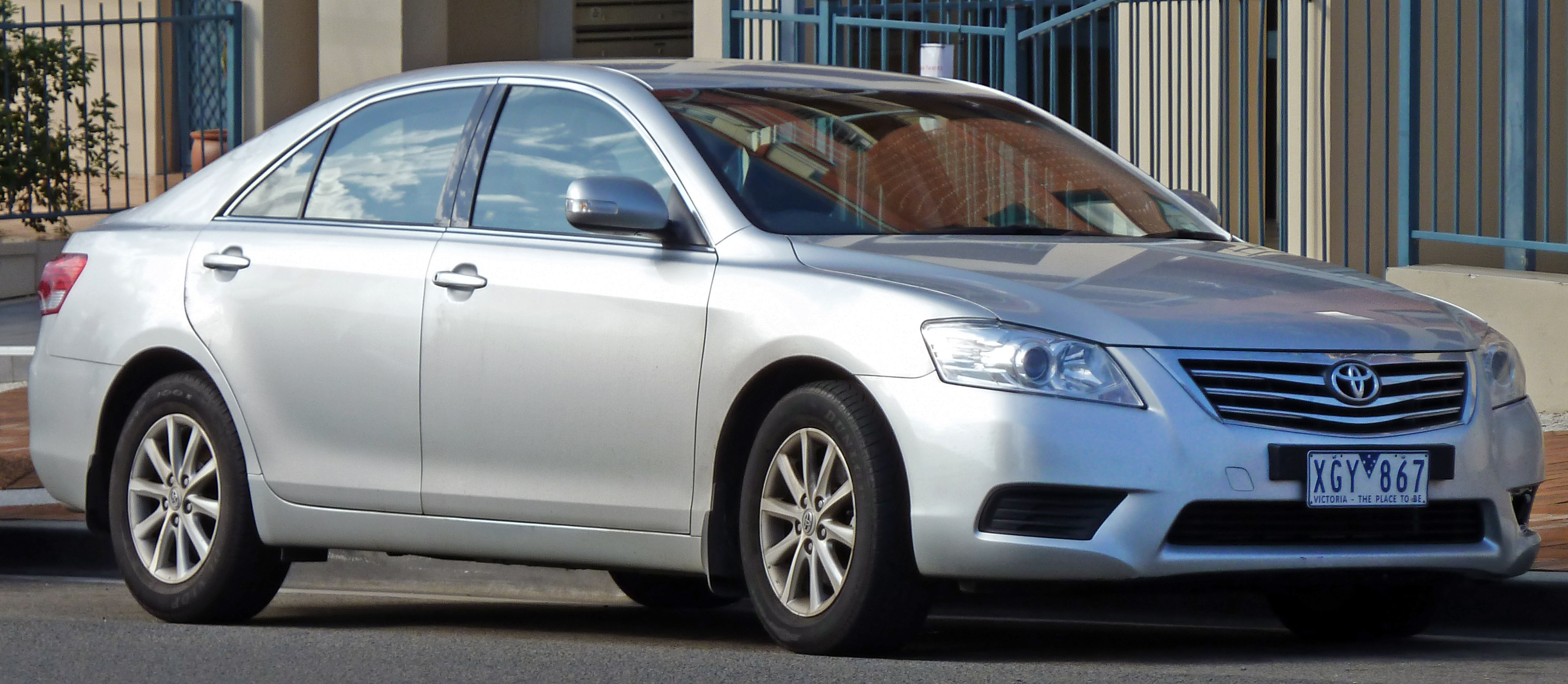 2009 Toyota Aurion (GSV40R MY10) AT-X sedan. Photographed in Miranda, New South Wales, Australia. Vehicle registration enquiry resultsJurisdictionVictoriaRegistrationXGY867Chassis code6T153KK400X329424Engine code2GR0678685Compliance date2009-09Year of manufacture2009